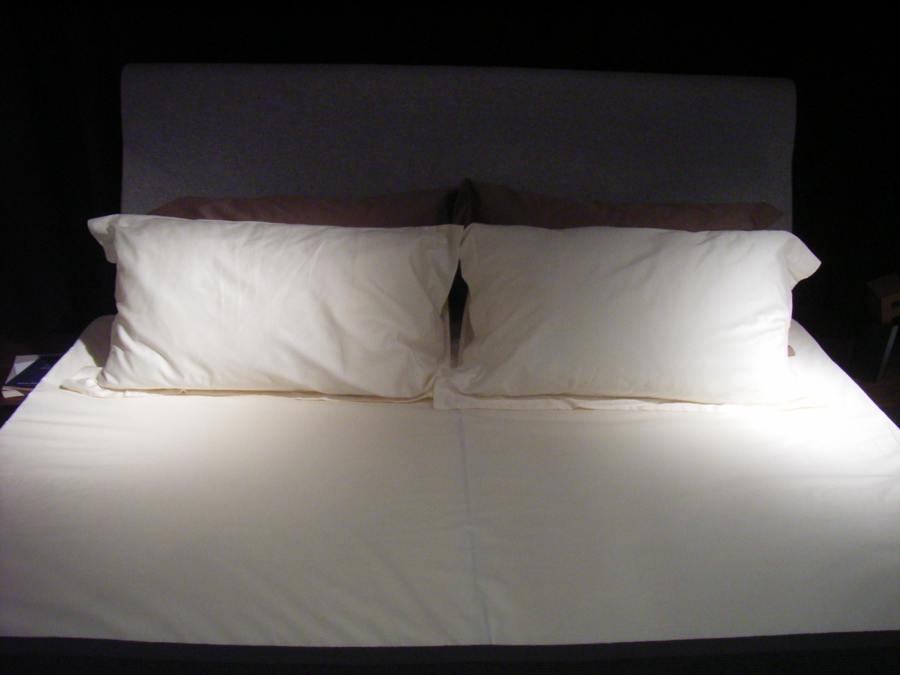 荷李活道警察宿舍zh:開放日